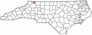 Category:North Carolina Dot Maps